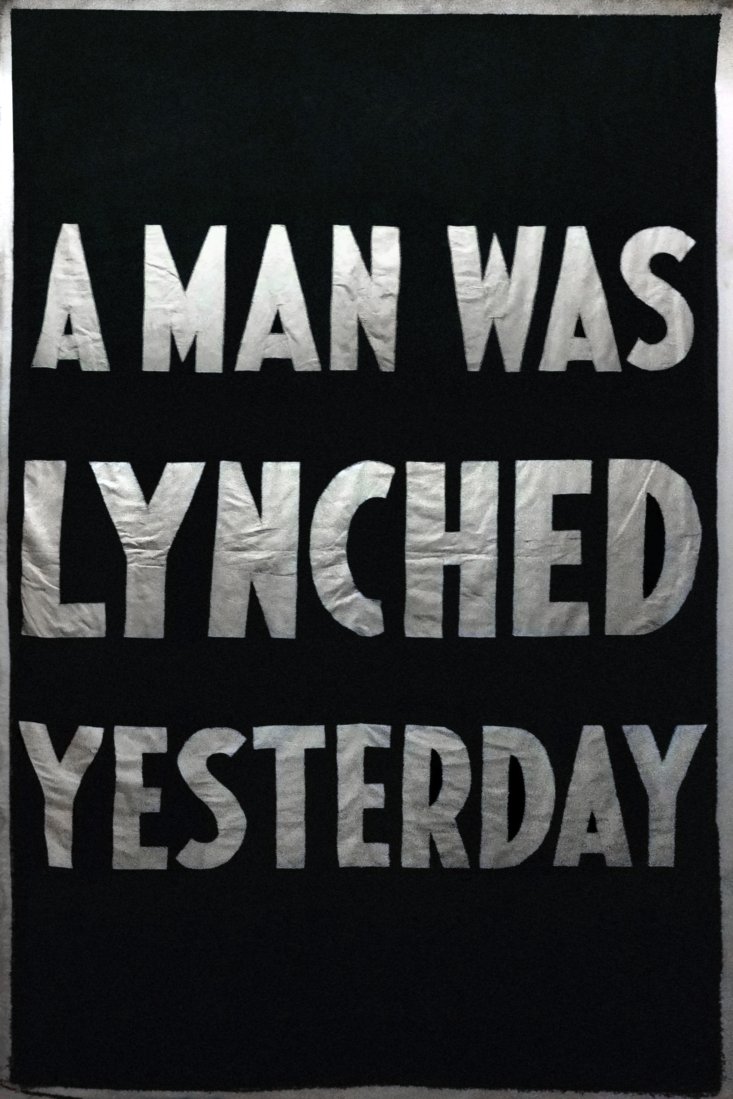 A civil rights exhibit at the Thomas Jefferson Building at the Library of Congress in Washington, DC, includes a replica of the 1920 flag displayed by the NAACP when a lynching occurred in the United States.